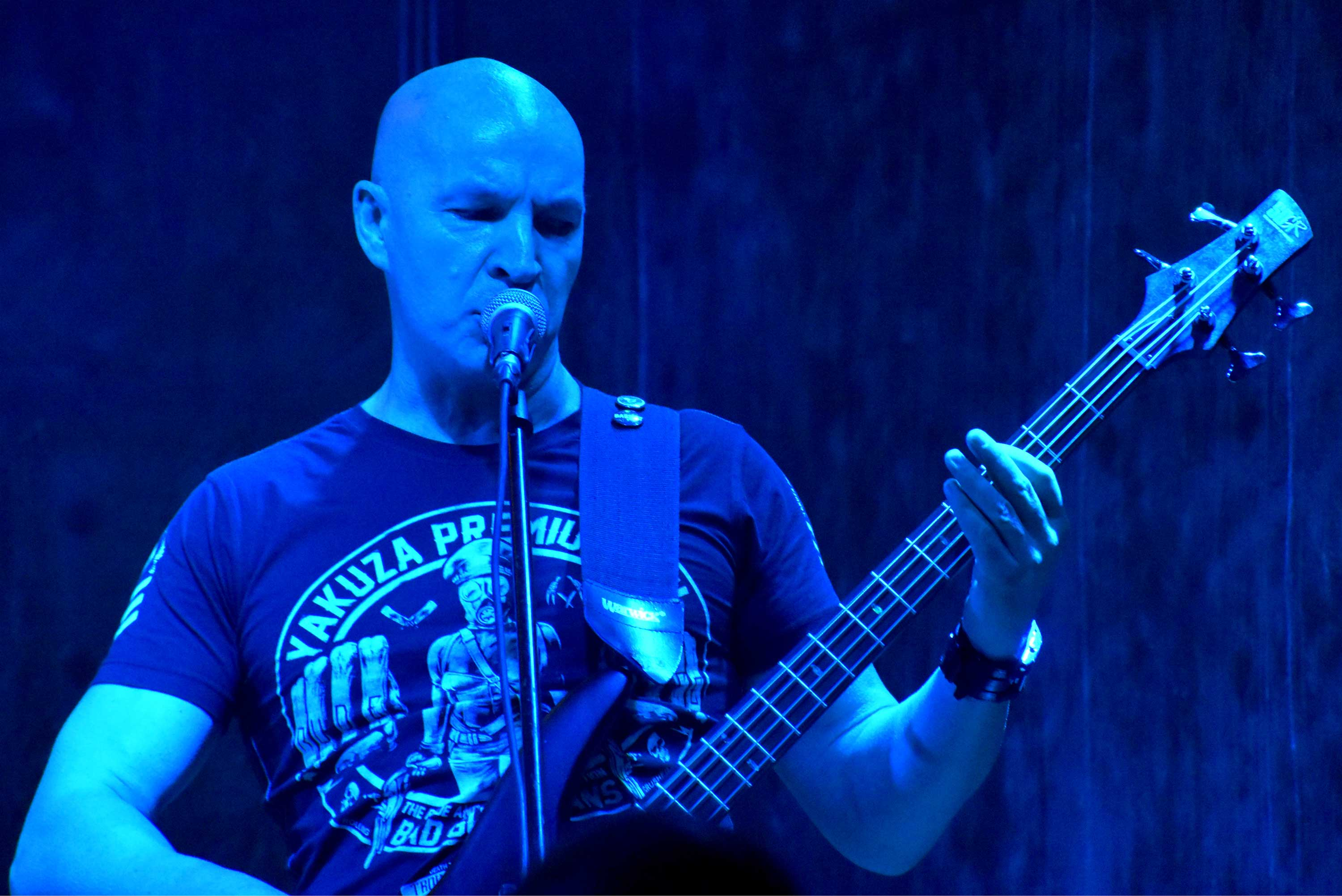 Patrias, heavy metal bend from Smederevo, Serbia